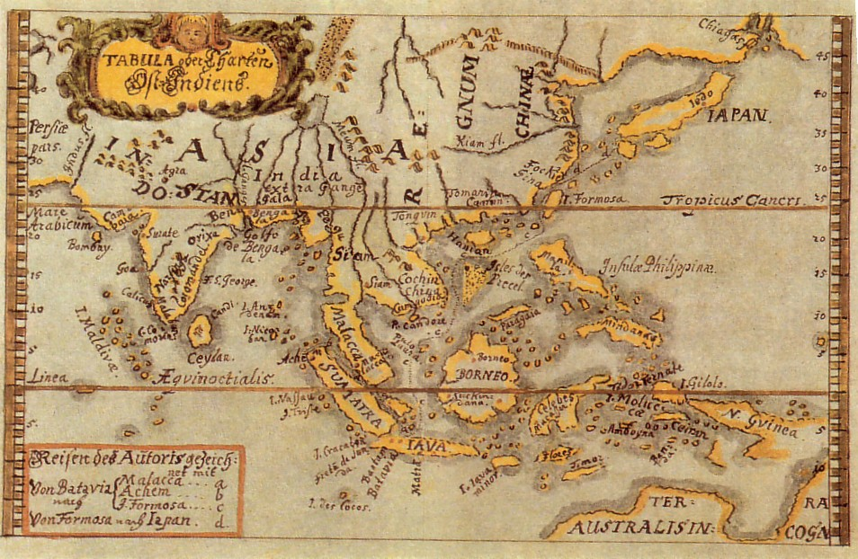 colored drawing by Caspar Schmalkalden (c.1618-c.1668)